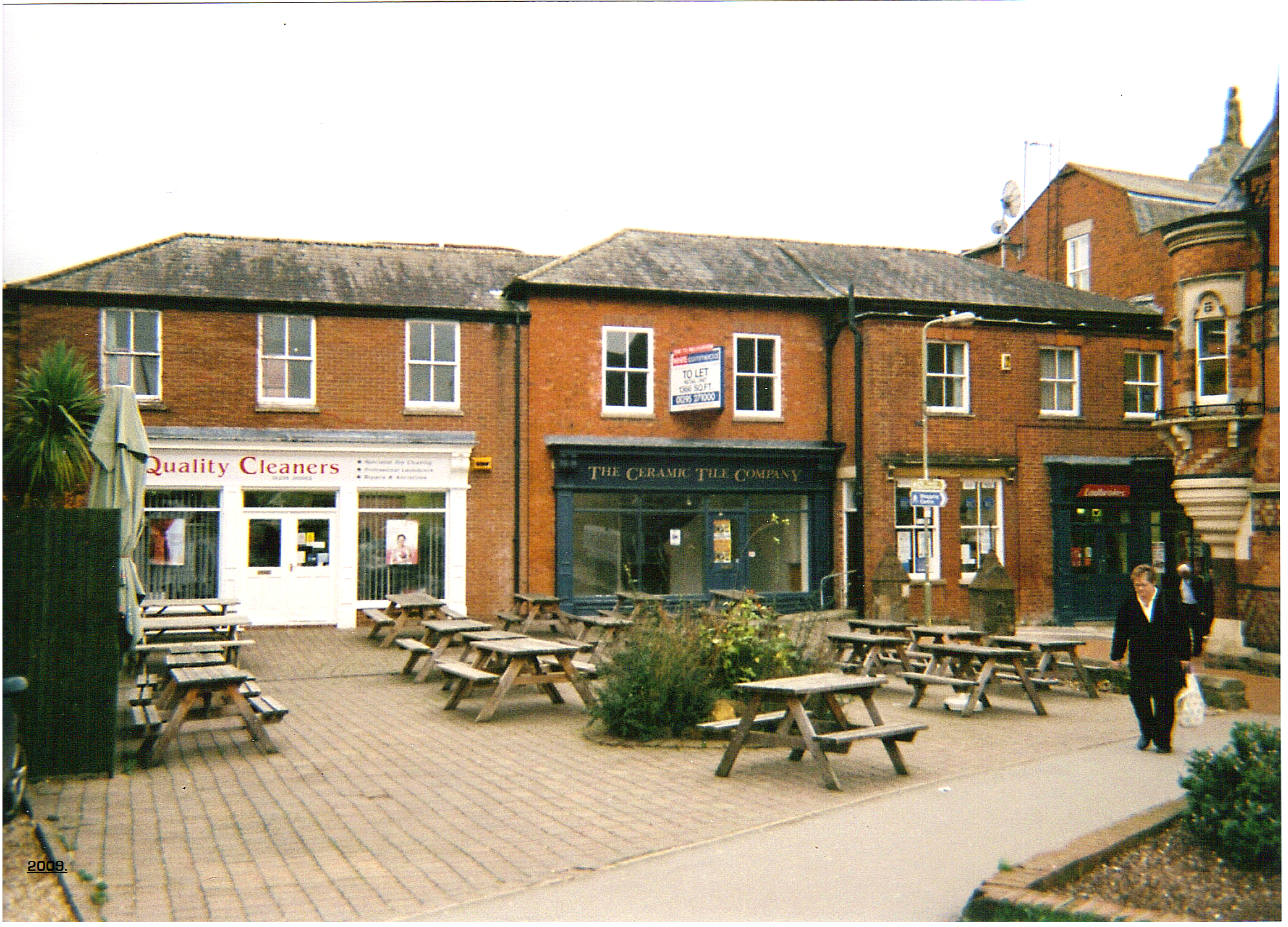 I took this picture of Banbury town my self. The Ceramic Tile Company shop closed in 2004. I here by release it in to the public domain.